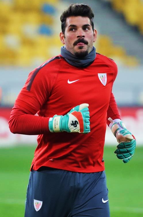 Iago Herrerín